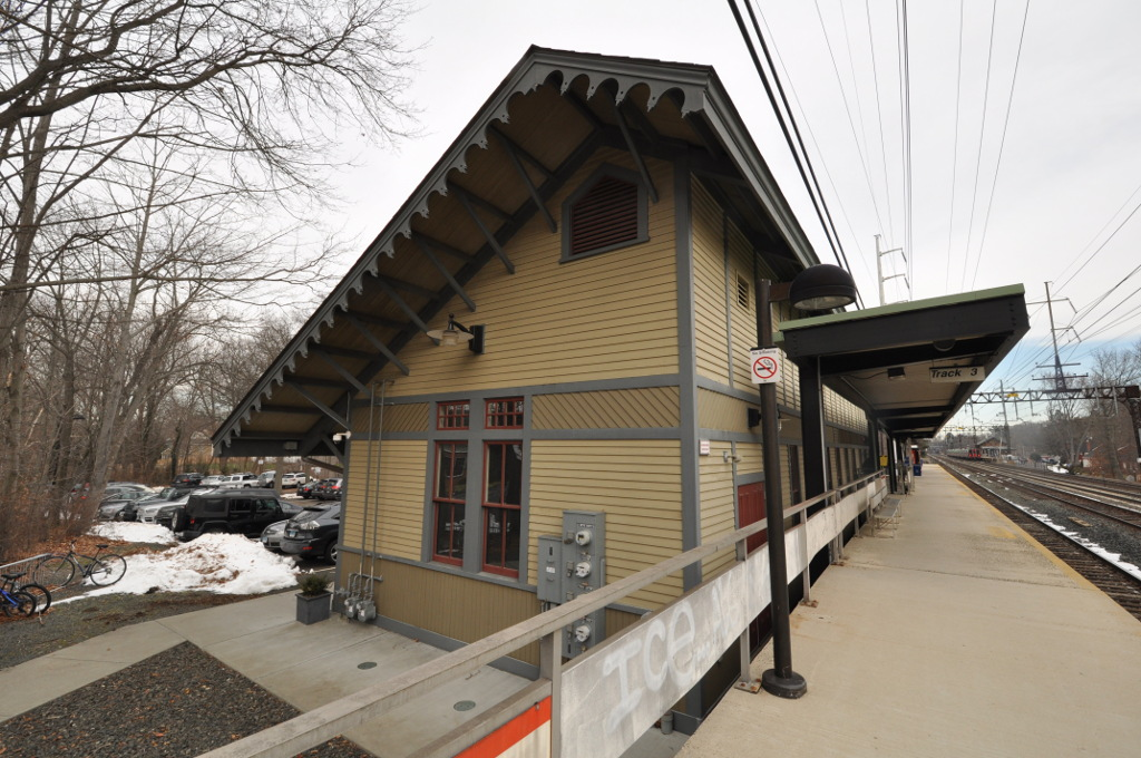 Southport Railroad Stations, Fairfield, Connecticut. Westbound station building, as seen from the platform.